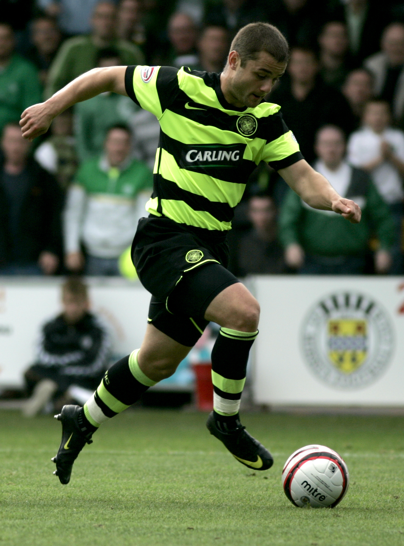 Shaun Maloney